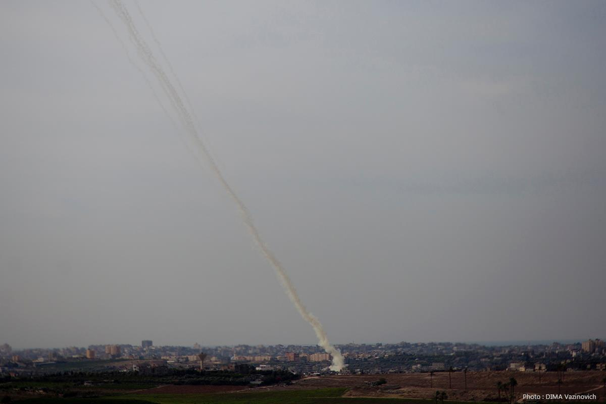 November 18, 2012 More than 500 rockets hit Israel since the beginning of Operation Pillar of Defense. The IDF will not tolerate any attacks on Israeli civilians and will continue to respond to terror emanating from Gaza. Pictured: A rocket being launched from the Gaza Strip towards Southern of Israel. For more information, see our updating post. Photo by Dima Vazinovich. For more from the IDF